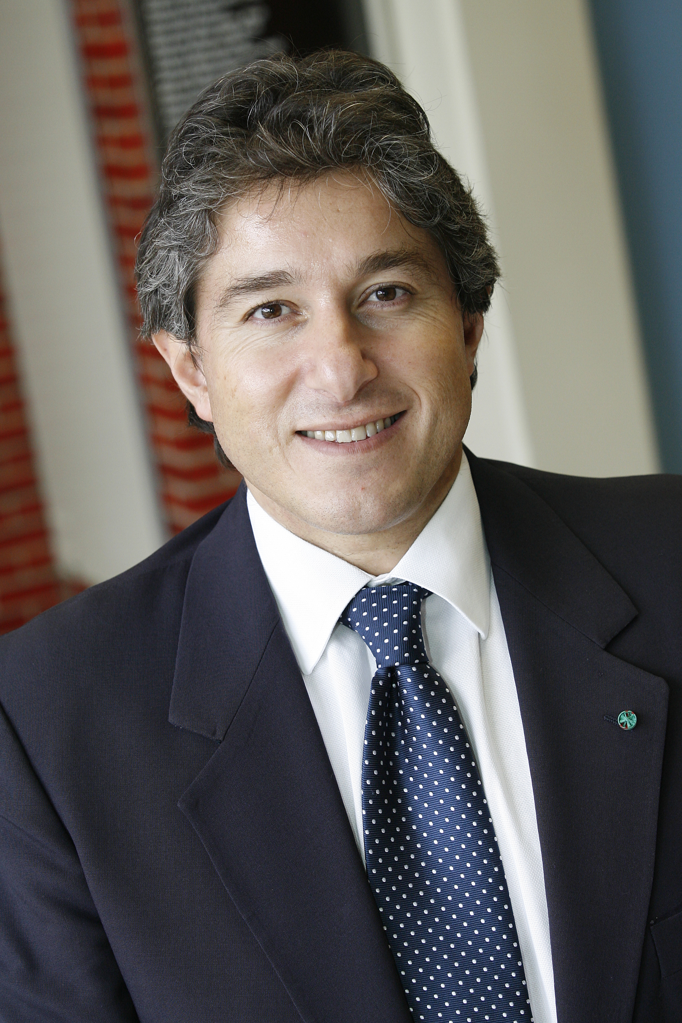 Antonio Giordano, M.D., Ph.D., President and Founder of the Sbarro Health Research Organization